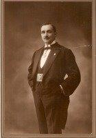 Emilio Herrero Mazorra (Reinosa, 1882 - 1968, Madrid) was a Spanish of early 20th century journalist. He was correspondent of the "United Press International" in Paris, and during the second Spanish Republic Niceto Alcalá-Zamora with press officer.